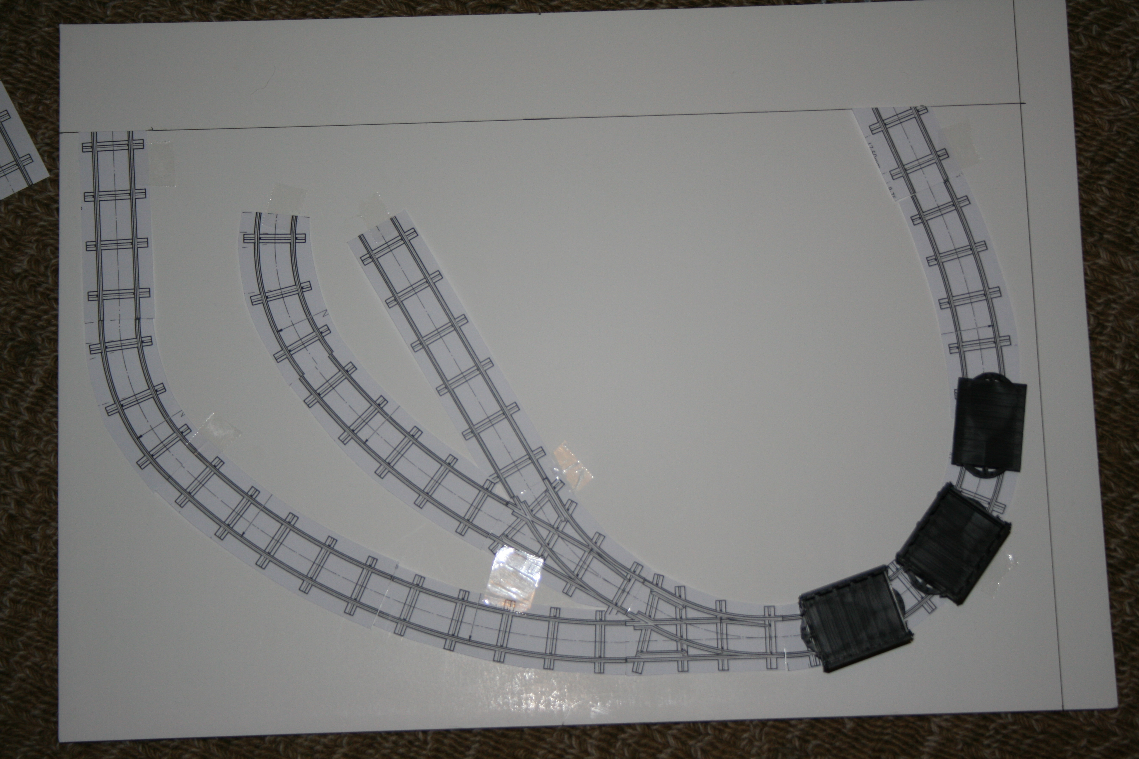 This is an A3 sheet of foamboard. The area marked out is 40cm x 25cm, which fits the rules for the ExpoNG 2008 layout challenge. By using mostly type 1 (scale 13'3") radius curves and points from the Hudson portable track system I believe it will be possible to fit a "traditional" 5/3/3 Inglenook shunting puzzle in to this space, in 7mm/ft scale. This requires a long siding capable of holding 5 wagons (bottom/left), two sidings for 3 wagons and a headshunt for 3 wagons and a loco. With a total of 8 wagons "in play" the object is to assemble a train on the long siding of 5 wagons in a pre-determined order.